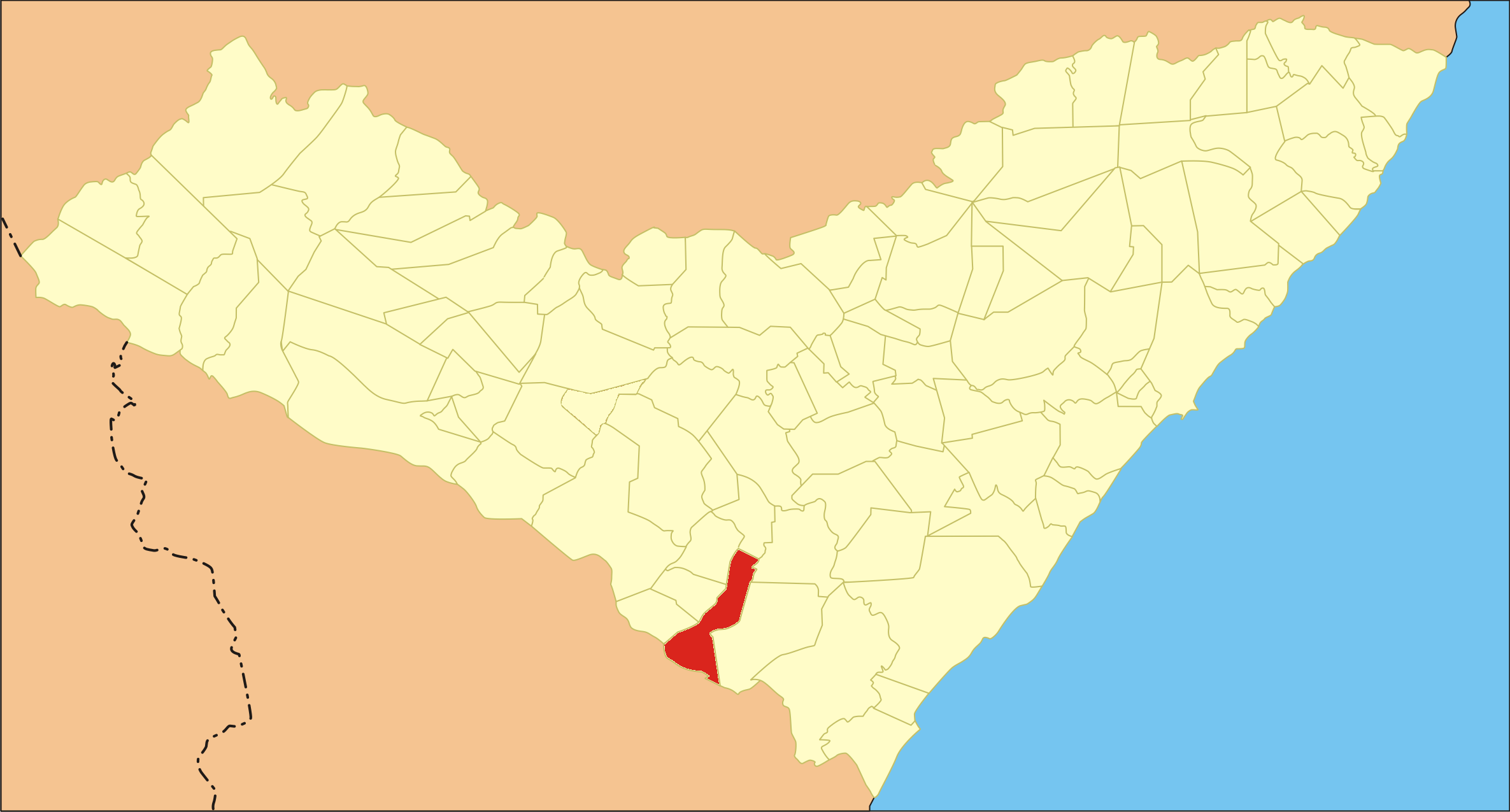 Localization of Porto Real do Colégio, in Alagoas state, Brazil.